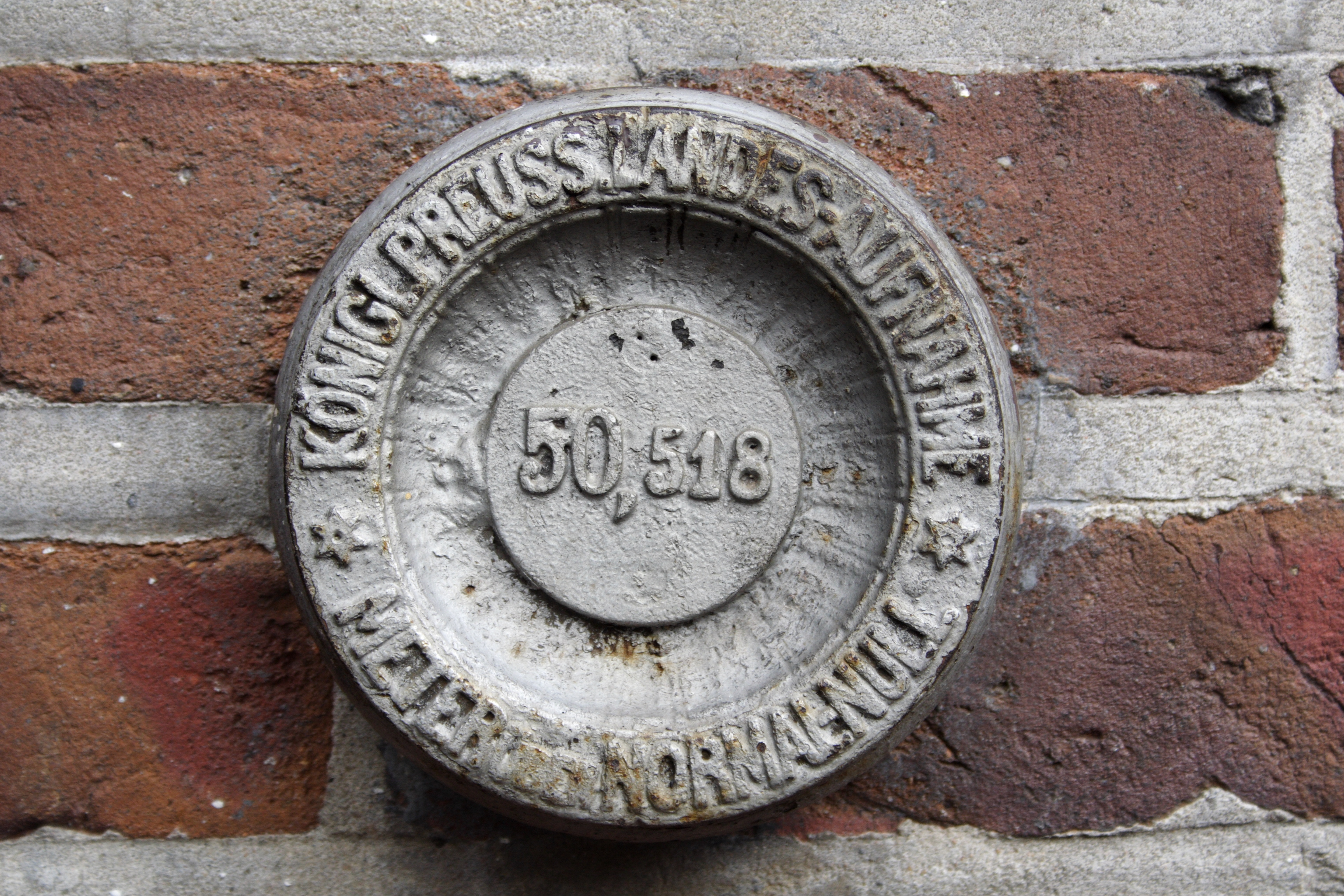 Benchmark from the end of 19th century on the Old Town Hall in Toruń